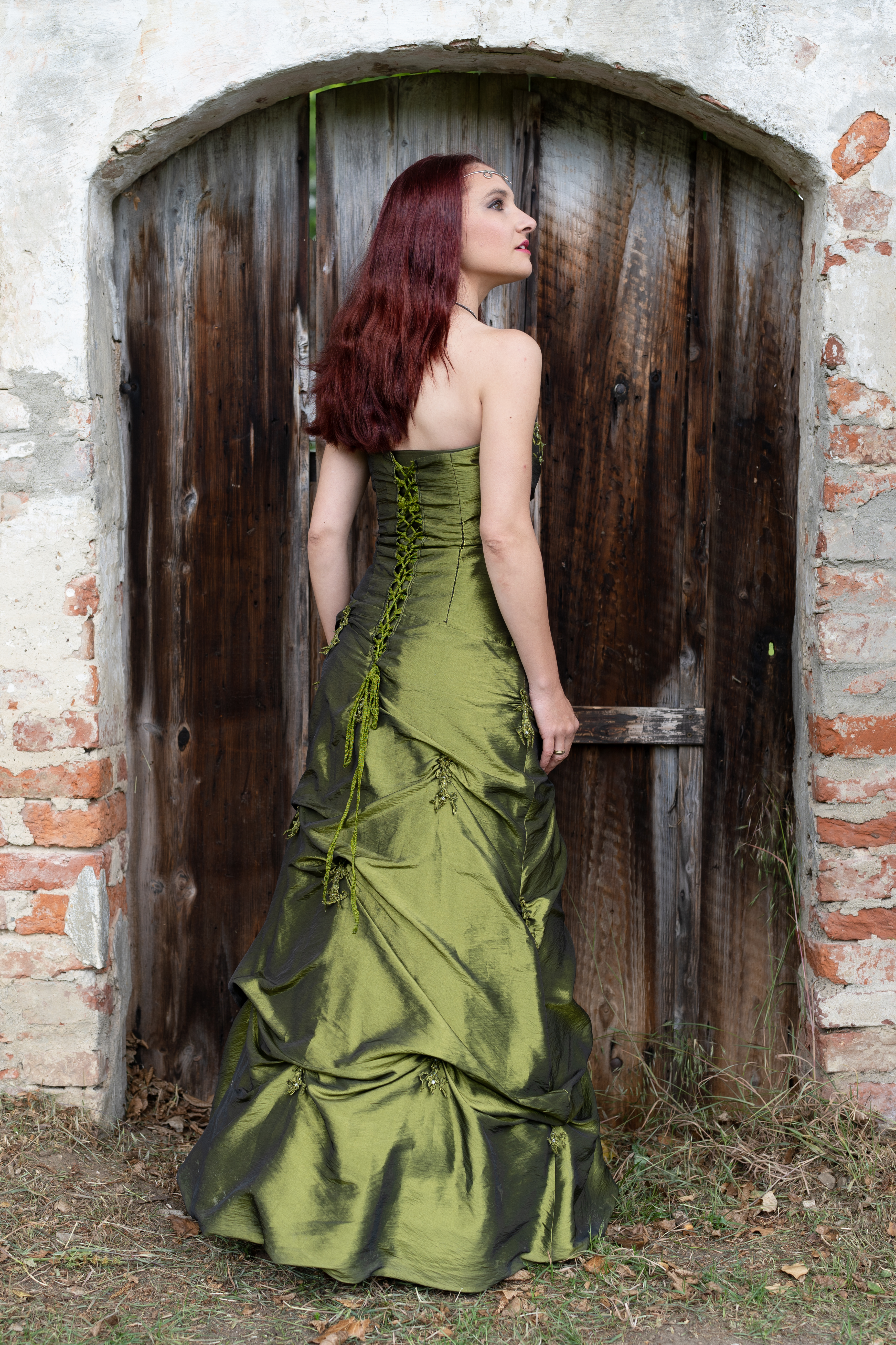 Strapless evening dresses with hoop skirt. Rear view with lacing in the back